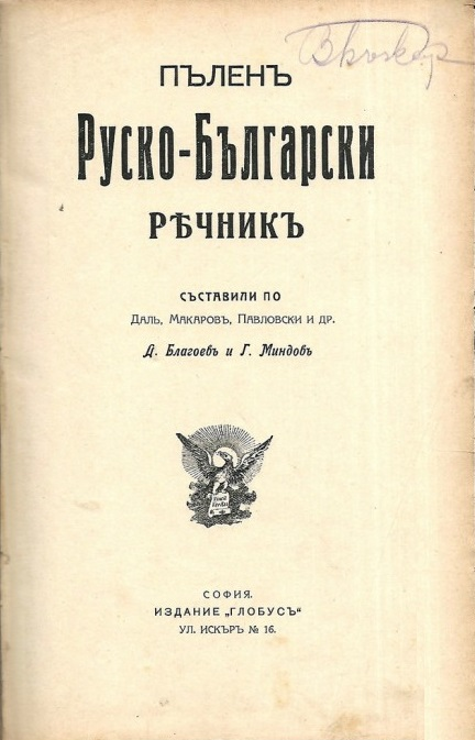 Russo-Bulgarian Dictionary 1914